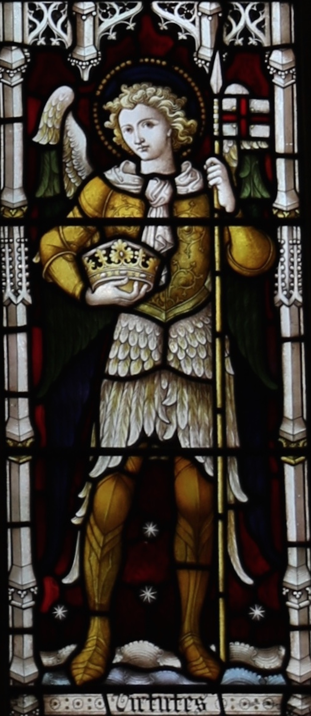 Angelic figure represents the Virtues, west window of the Church of St Michael and All Angels, Somerton, Somerset, England.